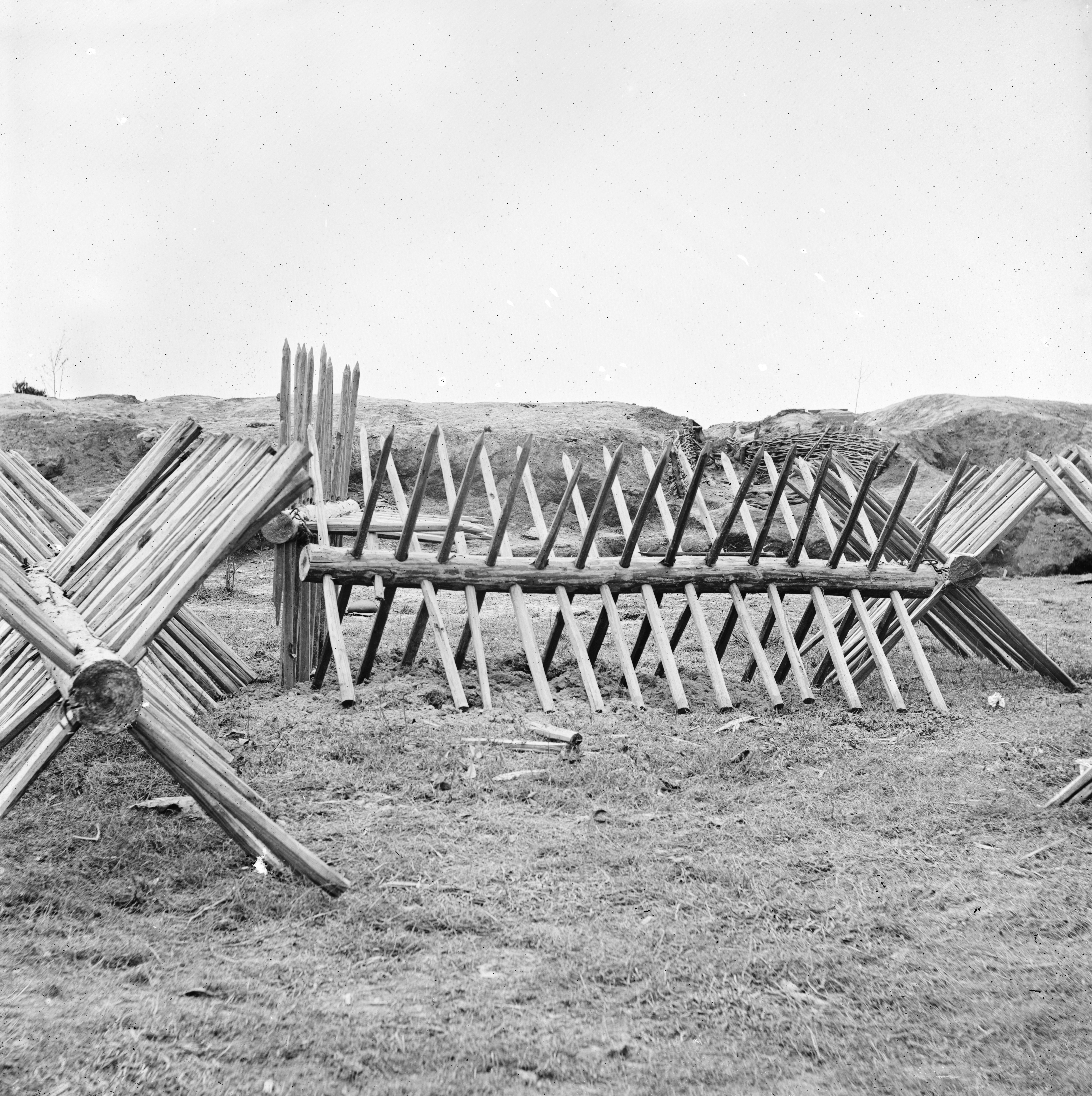 Petersburg, Va. Sections of chevaux-de-frise before Confederate main works CALL NUMBER: LC-B811- 3206[P&P] REPRODUCTION NUMBER: LC-DIG-cwpb-02597 (digital file from original neg. of left half) LC-DIG-cwpb-02598 (digital file from original neg. of right half) LC-B8171-3206 (b&w film copy neg.) No known restrictions on publication. SUMMARY: Photograph from the main eastern theater of war, the siege of Petersburg, June 1864-April 1865. MEDIUM: 1 negative (2 plates) : glass, stereograph, wet collodion. CREATED/PUBLISHED: [1865] NOTES: Civil War photographs, 1861-1865 / compiled by Hirst D. Milhollen and Donald H. Mugridge, Washington, D.C. : Library of Congress, 1977. No. 0428 Two plates form left (LC-B811-3206A) and right (LC-B811-3206B) halves of a stereograph pair. Forms part of Selected Civil War photographs, 1861-1865 (Library of Congress)